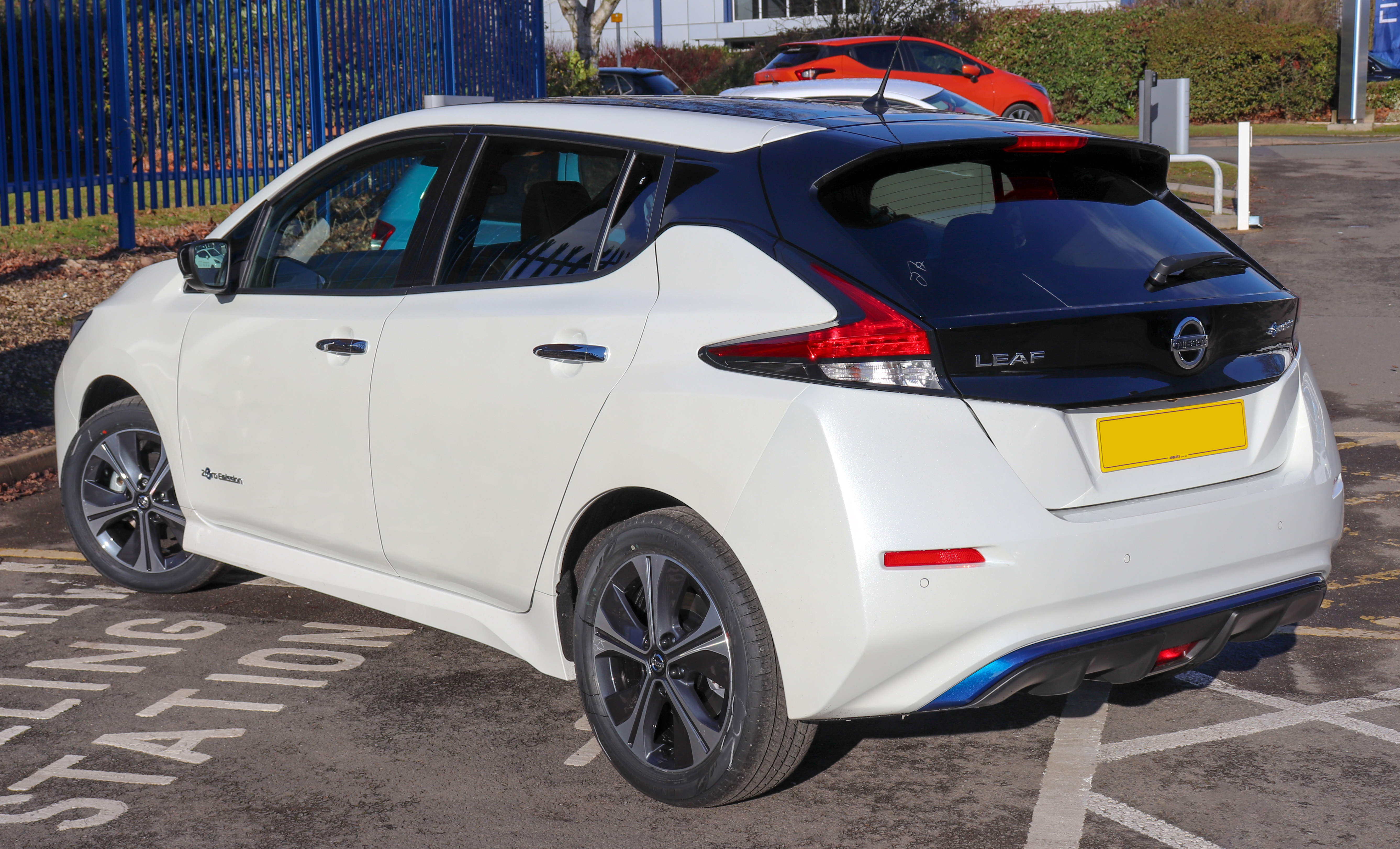 2018 Nissan Leaf Tekna Rear Taken in Arbury Nissan, Leamington Spa